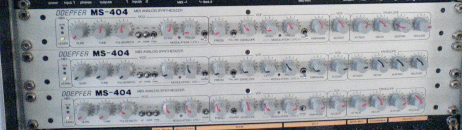 3 Doepfer MS-404 in a 19" rack. Copyleft, Photography by Lillo Coniglio for Wikipedia. The picture shows Version 1 is in the middle (black knobs), Version 2 (red knobs) are on top and bottom. Version 1 can not use MIDI sustain, but this doesn't have an effect on the sound. Sound differences between the two versions might be a result of different component tolerances (particularly in the VCO and filter transistors).